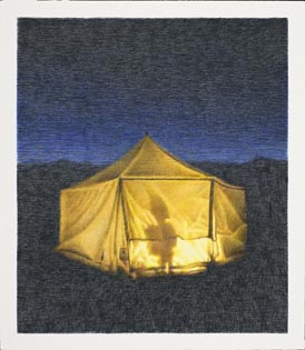 Slawomir Elsner Displaced 02 2009, 52 x 45 cm, crayon on paper